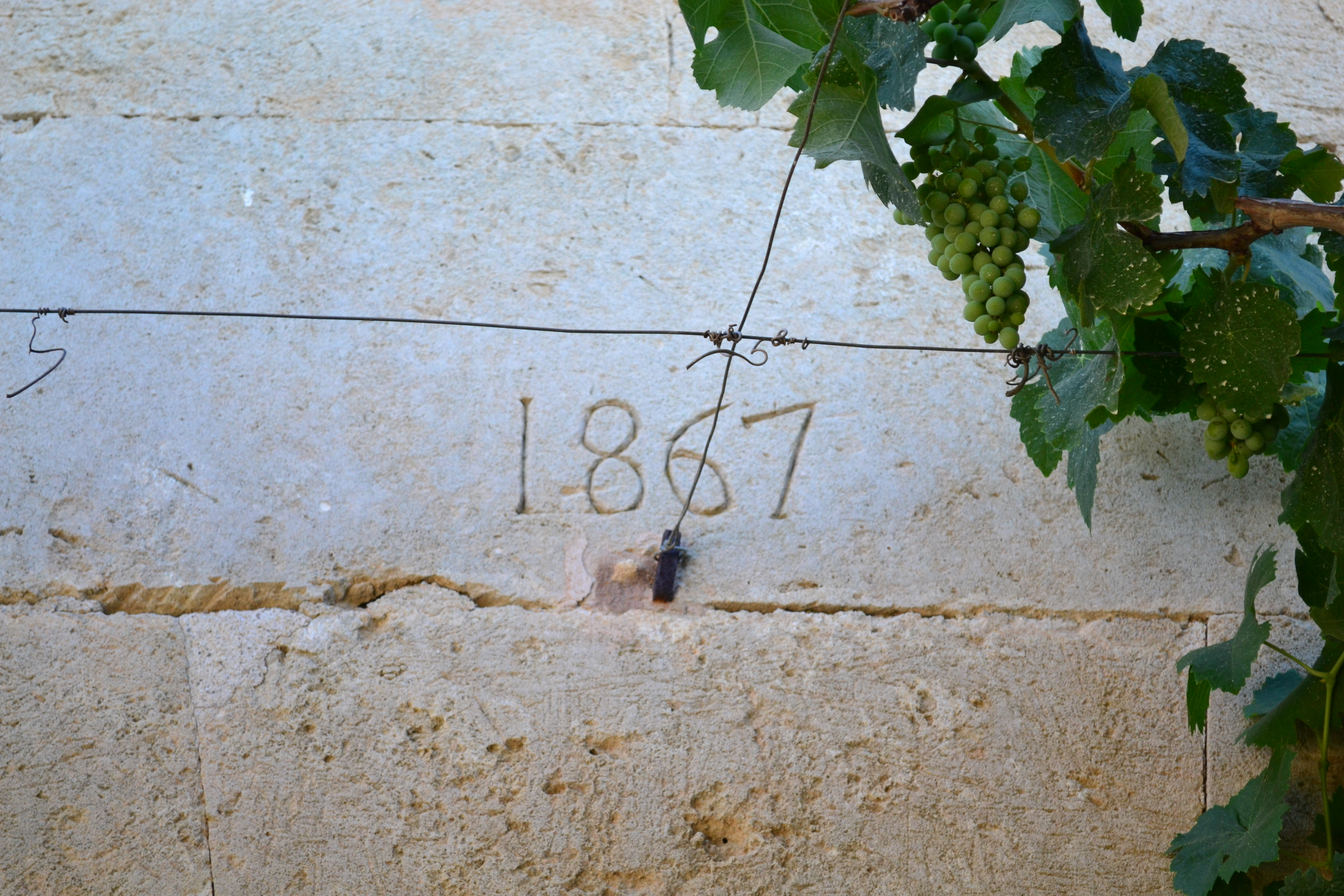 The inscription above the portal Binilagant New houses, with the date 1867